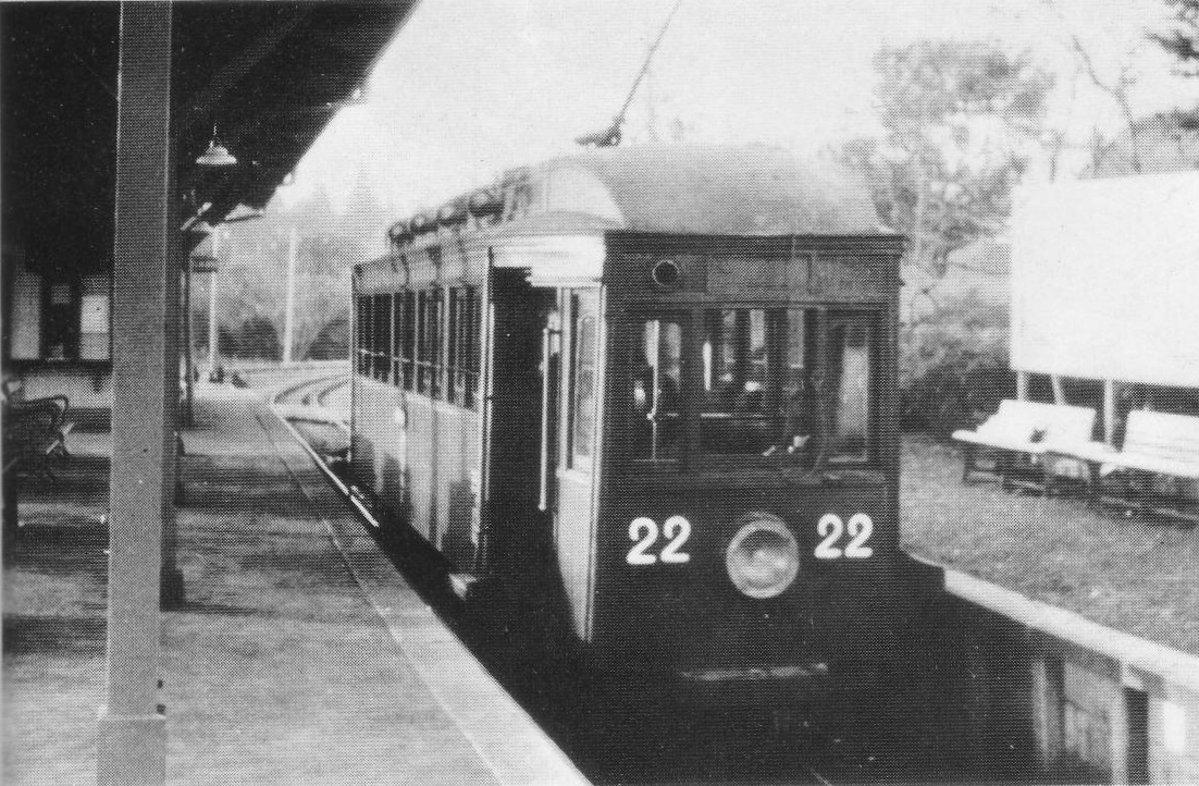 Tamako Railway (present-day Seibu Tamako Line) EMU car 22 (former Keio class 23 car) at Kokubunji Station.